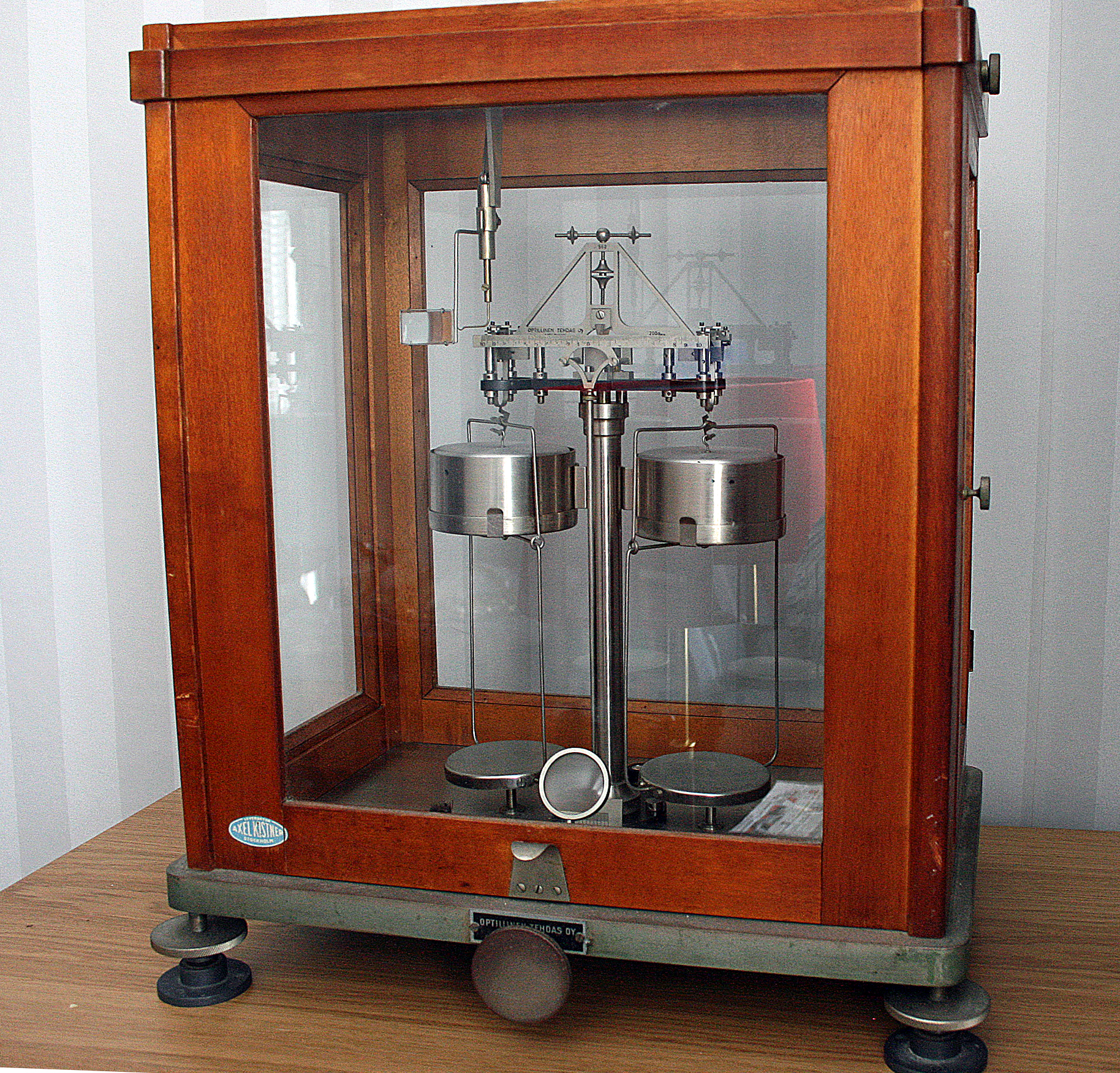 Antique analytical balance in mahogany cabinet.